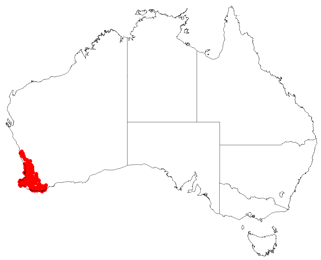 Tetraria octandra collections data download 3 August 2018 from AVH